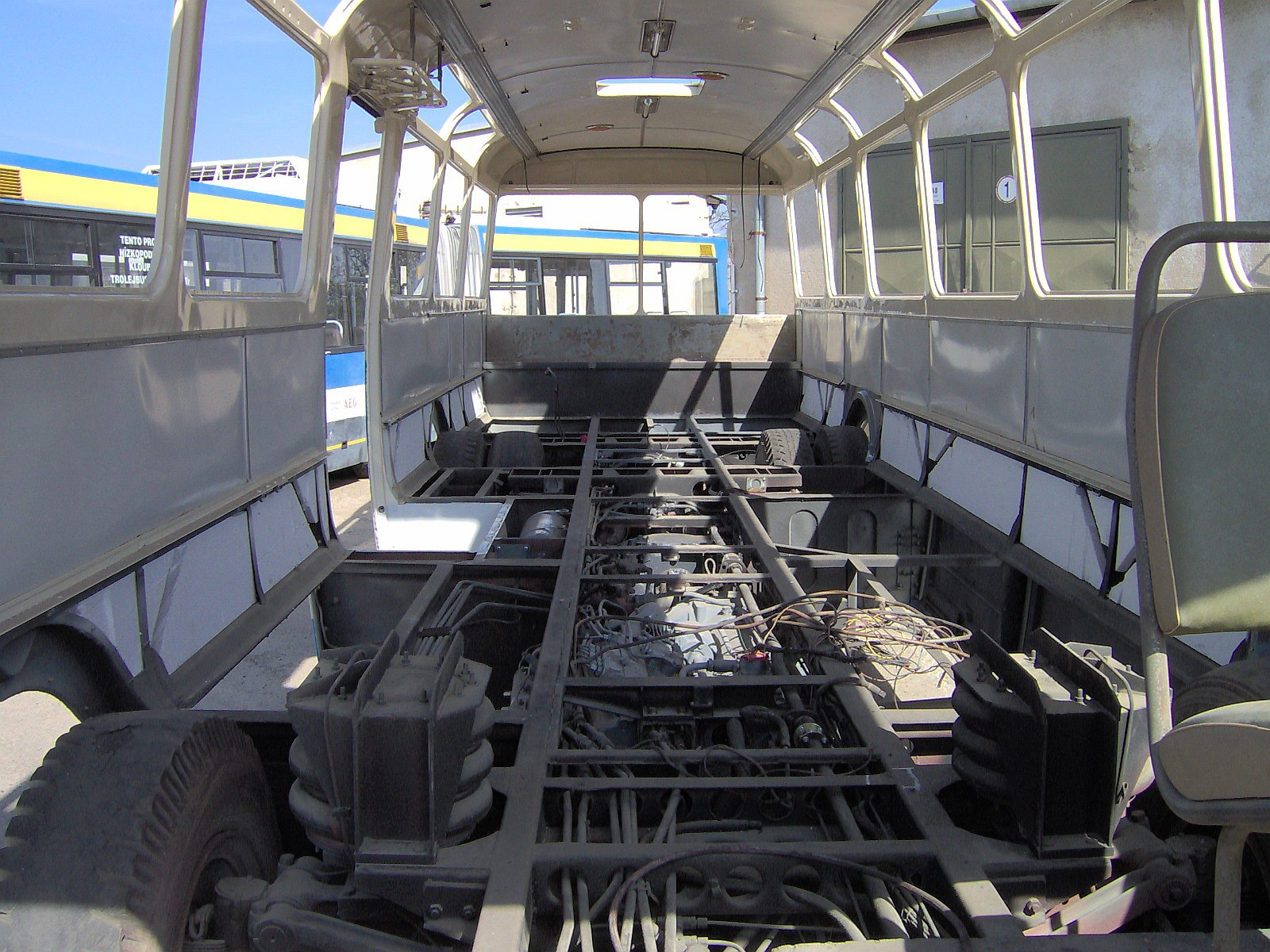 Historical bus Karosa ŠL 11 (under reconstruction) in Brno, Czech Republic.